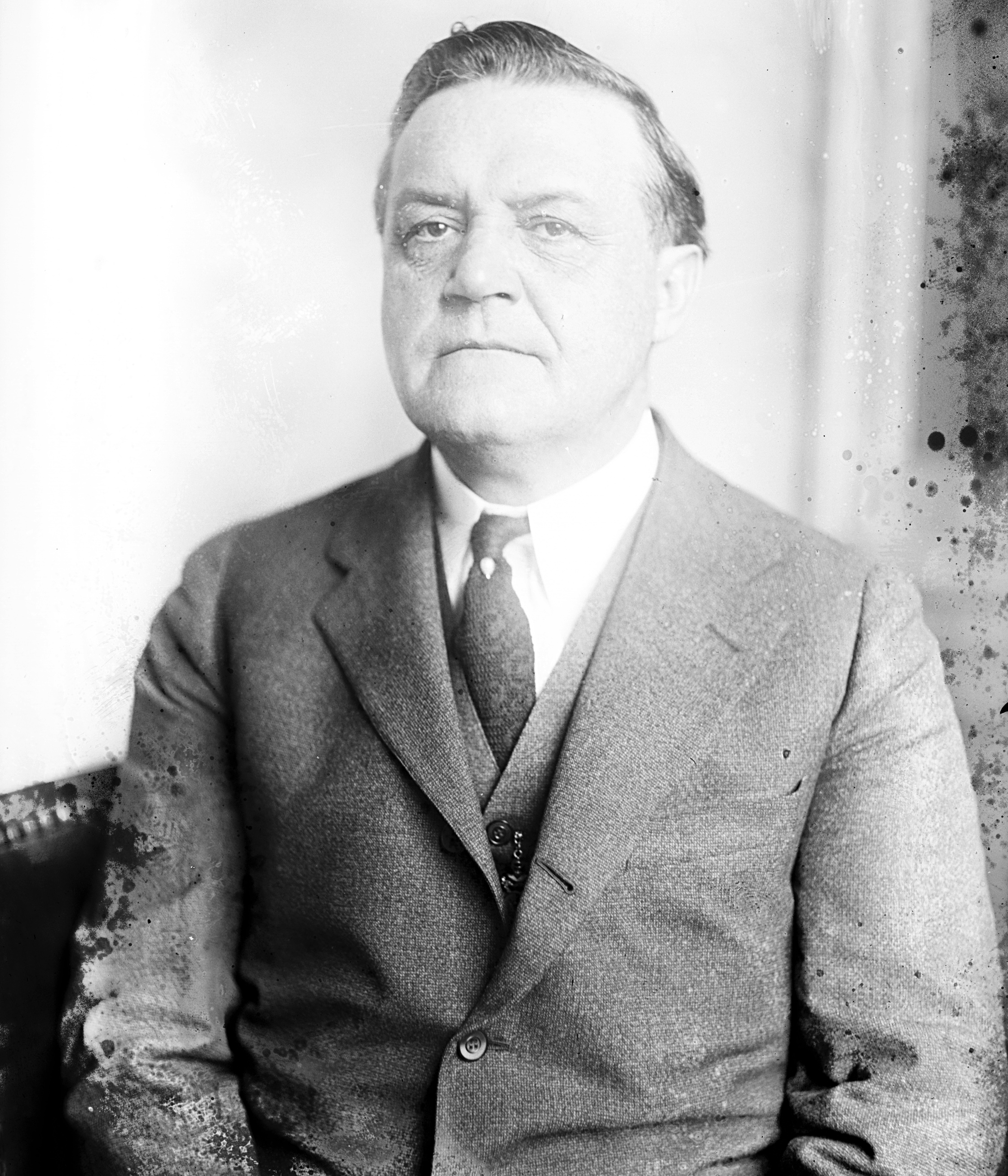 Frank H. Funk, US Representative from Illinois